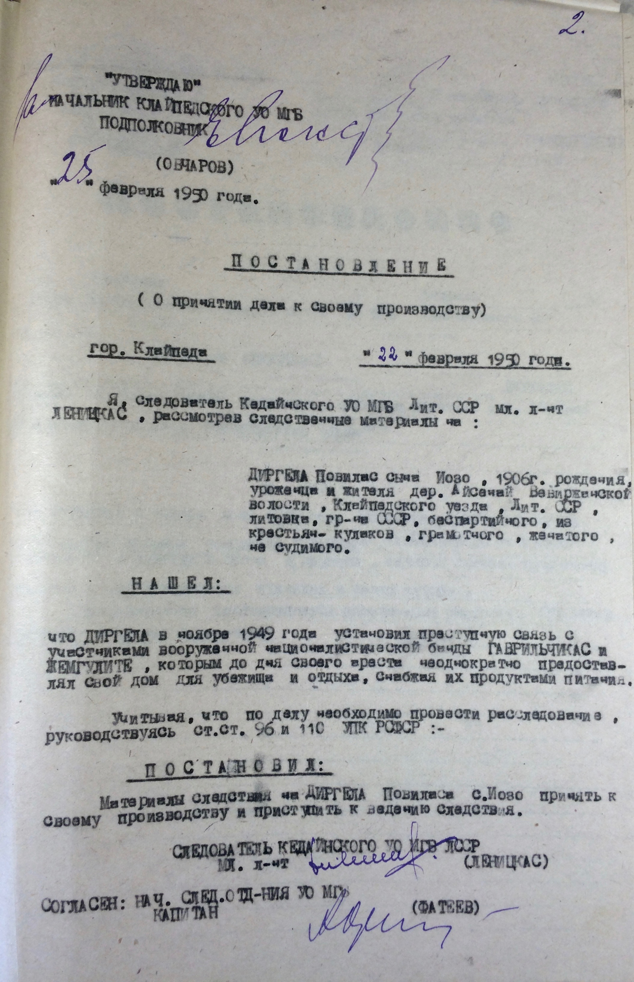 Decision to start investigation against the supporter of the anticommunist partisans in Lithuania